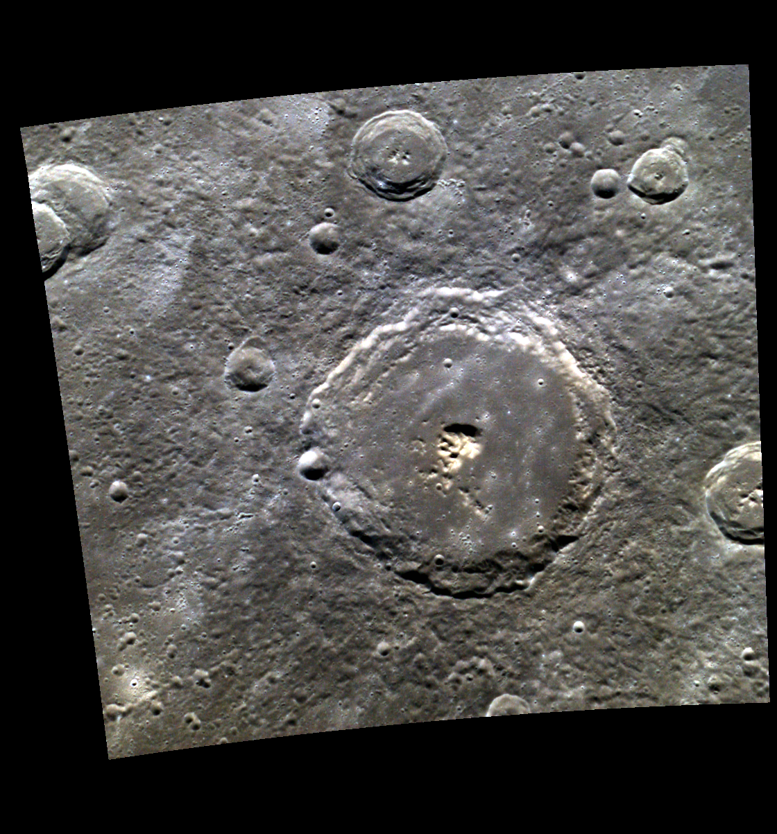 Date acquired: April 07, 2011 Image Mission Elapsed Time (MET): 210677654, 210677650, 210677646 Image ID: 102052, 102051, 102050 Instrument: Wide Angle Camera (WAC) of the Mercury Dual Imaging System (MDIS) WAC filters: 9, 7, 6 (996, 748, 433 nanometers) in red, green, and blue Center Latitude: 50.8° Center Longitude: 333.8° E Resolution: 224 meters/pixel Scale: Sor Juana crater is about 94 km (58 mi.) in diameter Incidence Angle: 50.9° Emission Angle: 1.4° Phase Angle: 52.3° North is up in this image. Of Interest: Today's image is a lovely color view of the impact crater Sor Juana. The crater interior contains smooth material, probably impact melt, that embays the central peak. The rim is relatively sharp, with well developed terraces. Sor Juana does not have its own rays: the bright ray patches containing chains and clusters of secondary craters that are dotted around the scene originated at Hokusai. Sor Juana is named for Sor Juana Inés de la Cruz (Sister Joan Agnes of the Cross), a nun and poet who lived from 1651 to 1695 in what is now Mexico. Some authorities consider her body of work to be the most important in North America until the arrival of 19th Century poets such as Dickinson and Whitman. This image was acquired as a high-resolution targeted color observation. Targeted color observations are images of a small area on Mercury's surface at resolutions higher than the 1-kilometer/pixel 8-color base map. During MESSENGER's one-year primary mission, hundreds of targeted color observations were obtained. During MESSENGER's extended mission, high-resolution targeted color observations are more rare, as the 3-color base map covered Mercury's northern hemisphere with the highest-resolution color images that are possible.